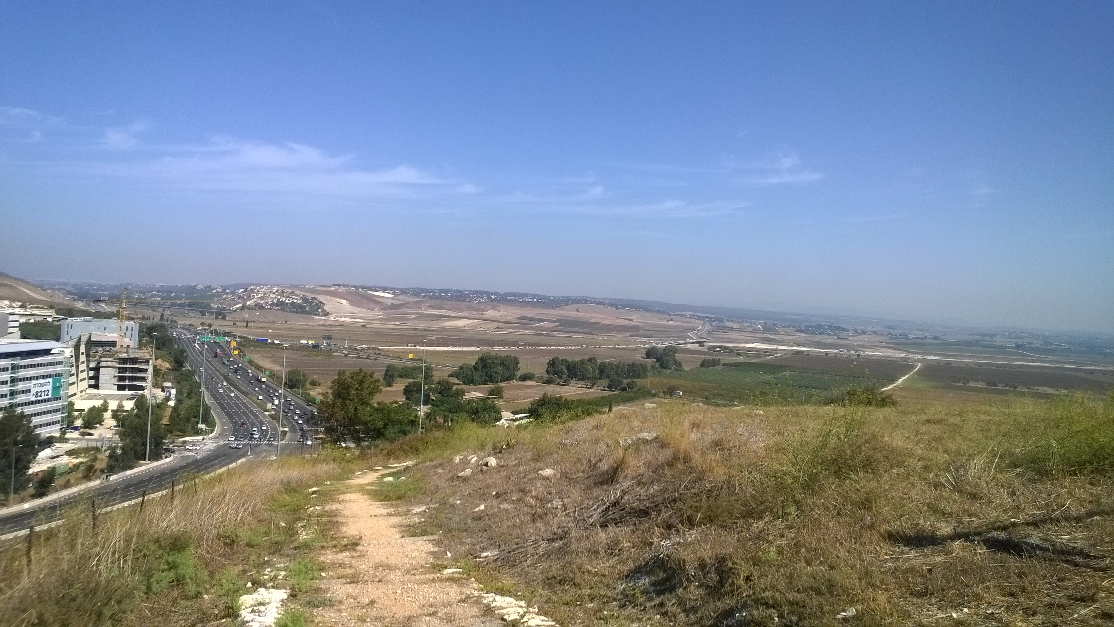 Tel Yokneam